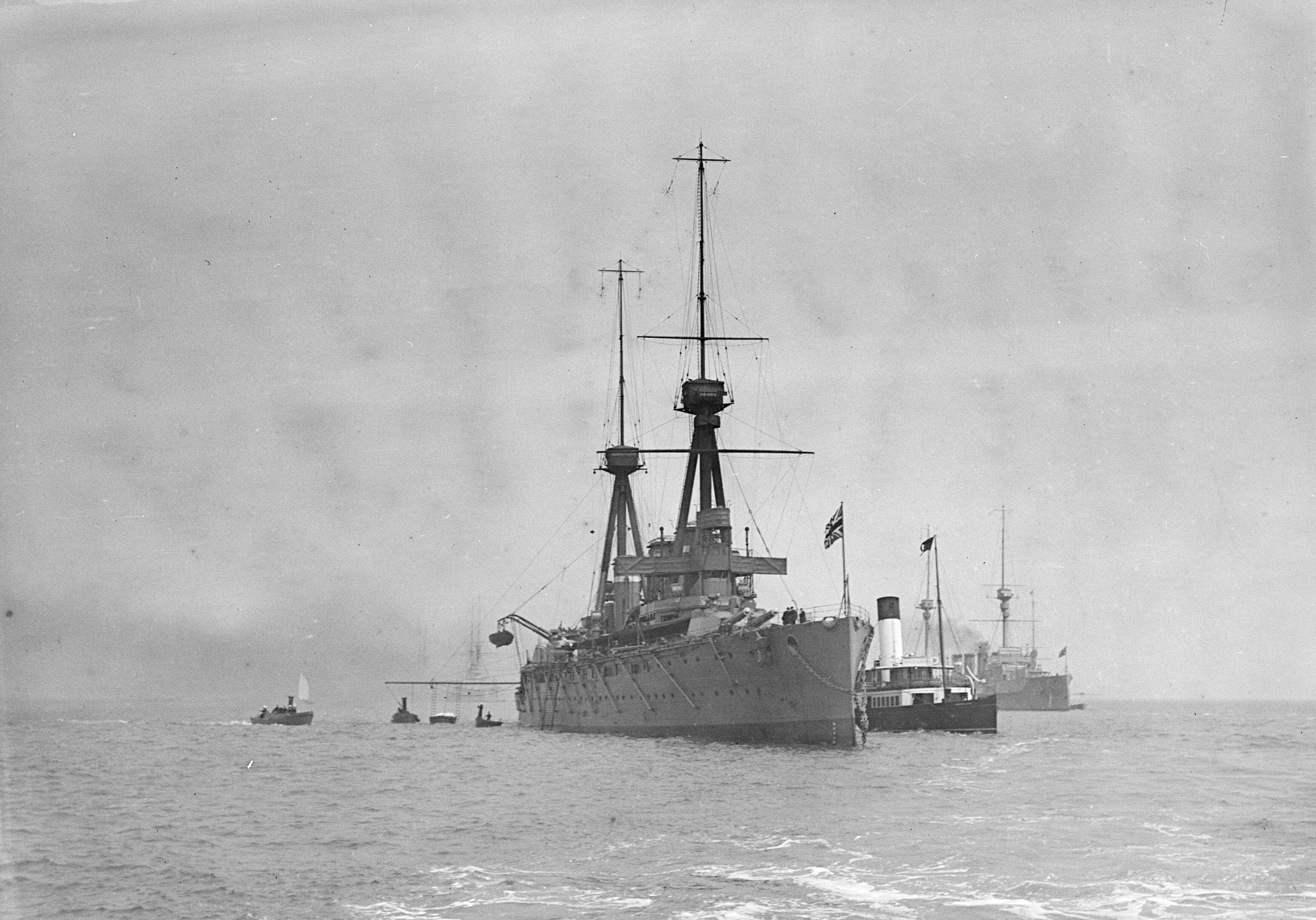 HMS 'Invincible' (1907) anchored at Spithead. A starboard bow view of the battlecruiser 'Invincible' (1907), with the armoured cruiser 'Minotaur' (1906) off her port bow, anchored in Line A at Spithead for the Naval Review or the King's Review of the Fleet. Off 'Invincible's' port broadside is the passenger paddle steamer 'Duchess of Fife' (1899). HMS 'Invincible' (1907) anchored at Spithead.